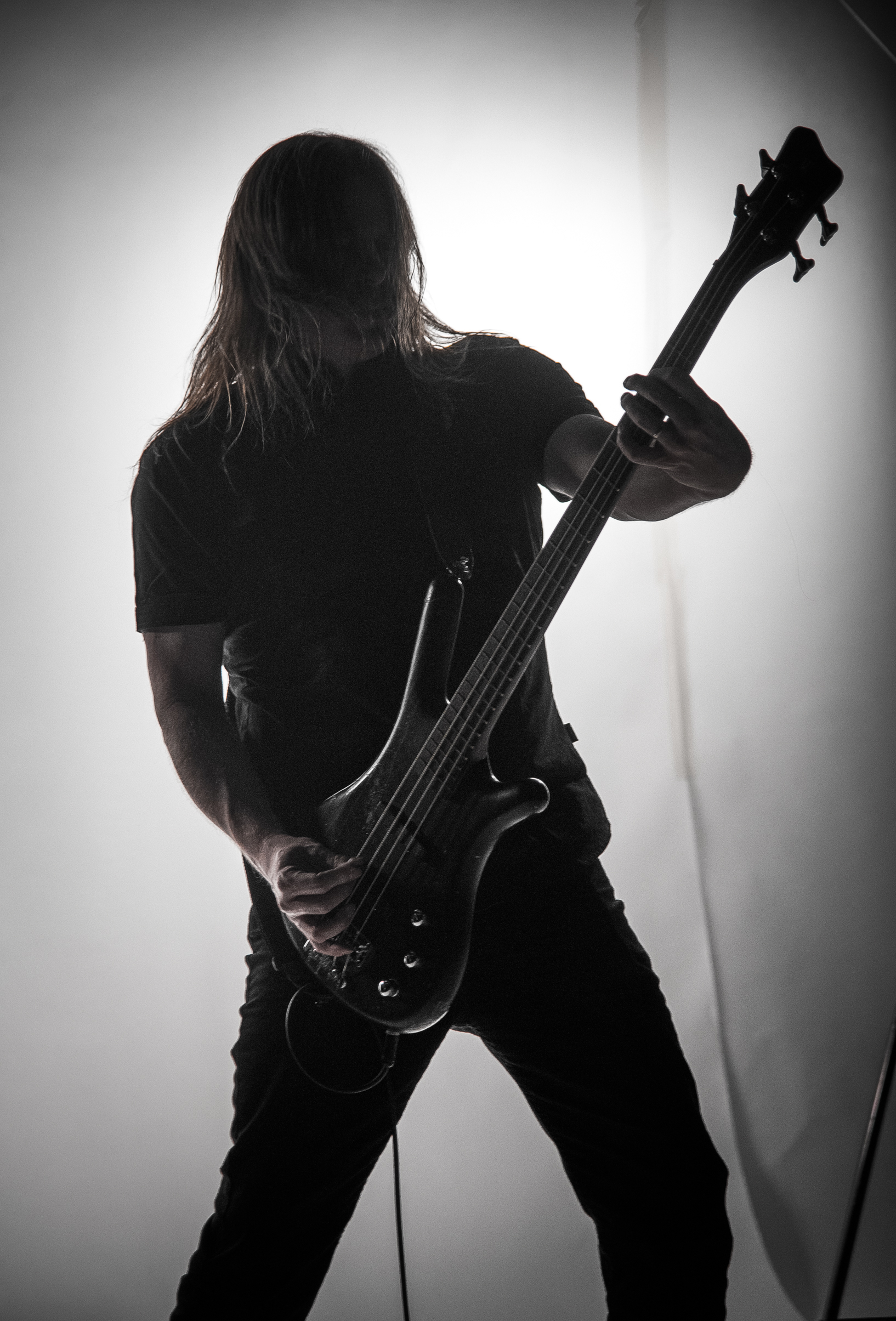 Musicvideo recording session for swedish metal band The Haunted